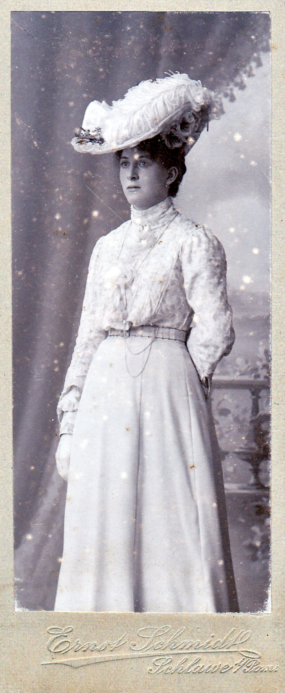 Photo of woman. Atelier: Ernst Schmidt, Sławno. Circa 1910.